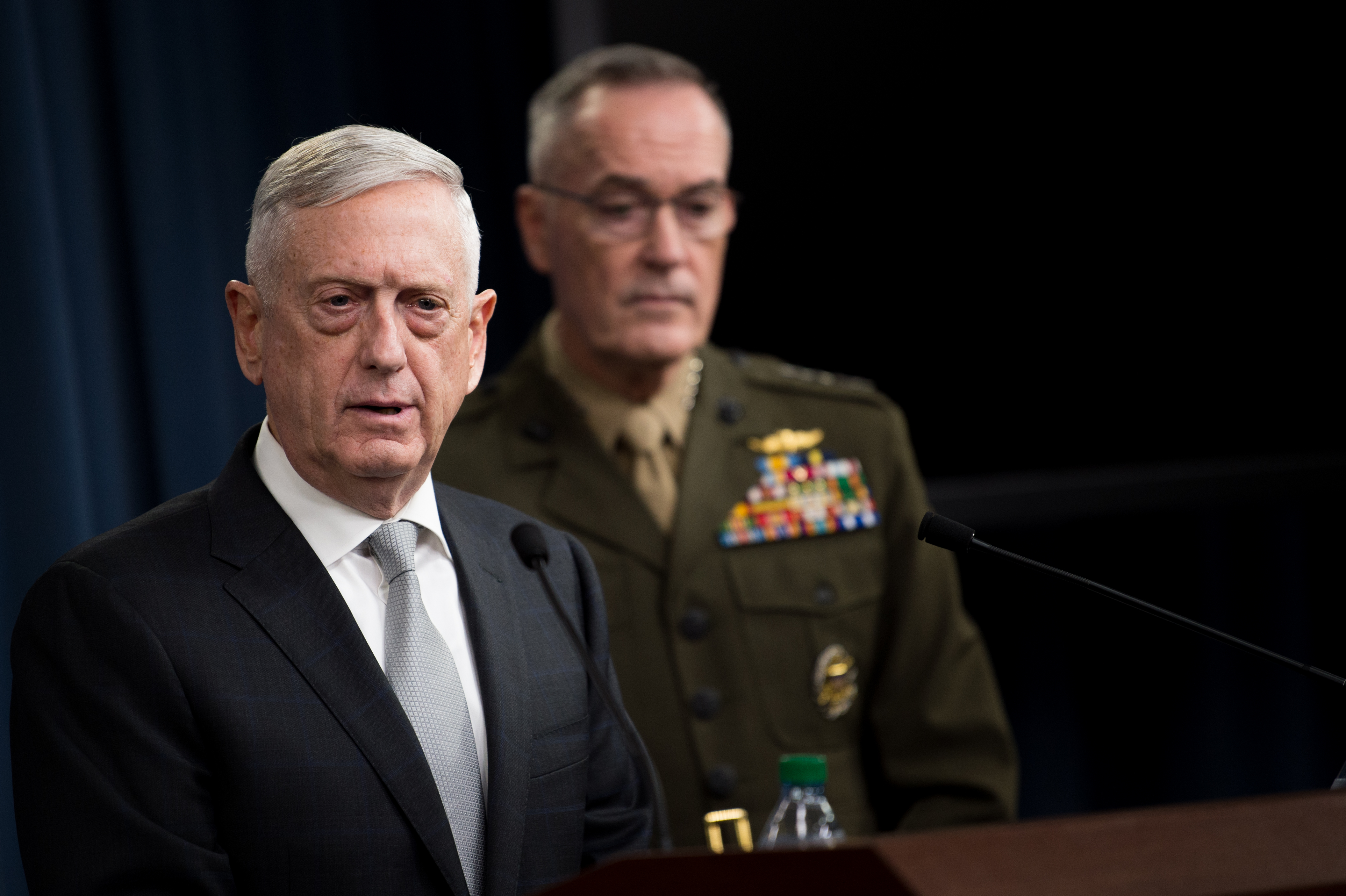 Defense Secretary James N. Mattis, the Chairman of the Joint Chiefs of Staff, Marine Gen. Joseph F. Dunford, Jr., brief reporters on the U.S. air strikes on Syria.